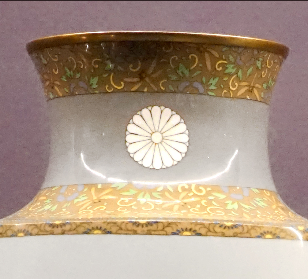 The Japanese Imperial crest (a sixteen-petalled chrysanthemum) visible on the neck of a presentation vase made by Namikawa Sosuke between 1890 and 1900. The cloisonné vase is one of a pair in the Khalili Collection of Japanese Art and was photographed on display in the Guimet Museum, Paris.